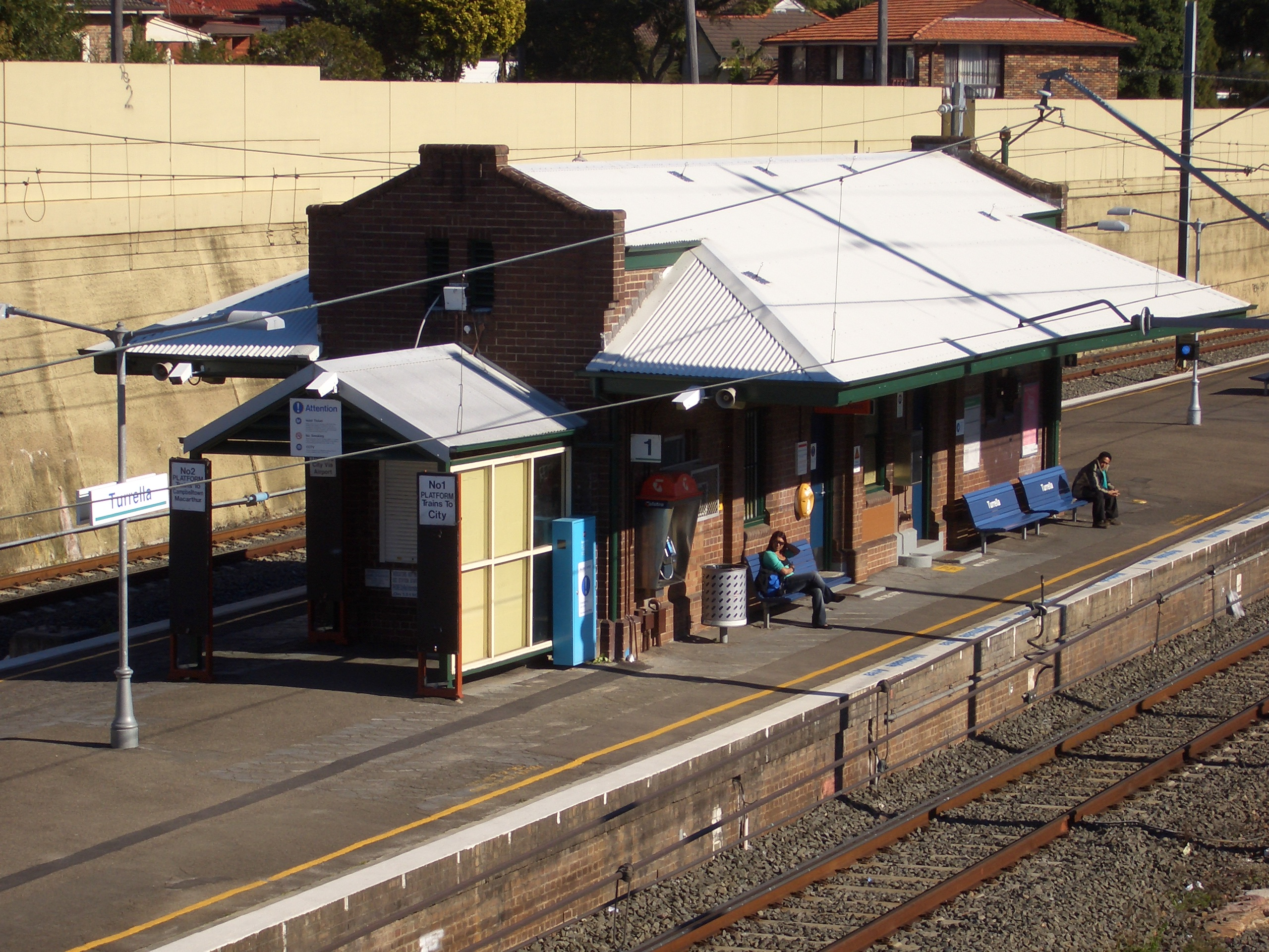 Turrella railway station, Sydney